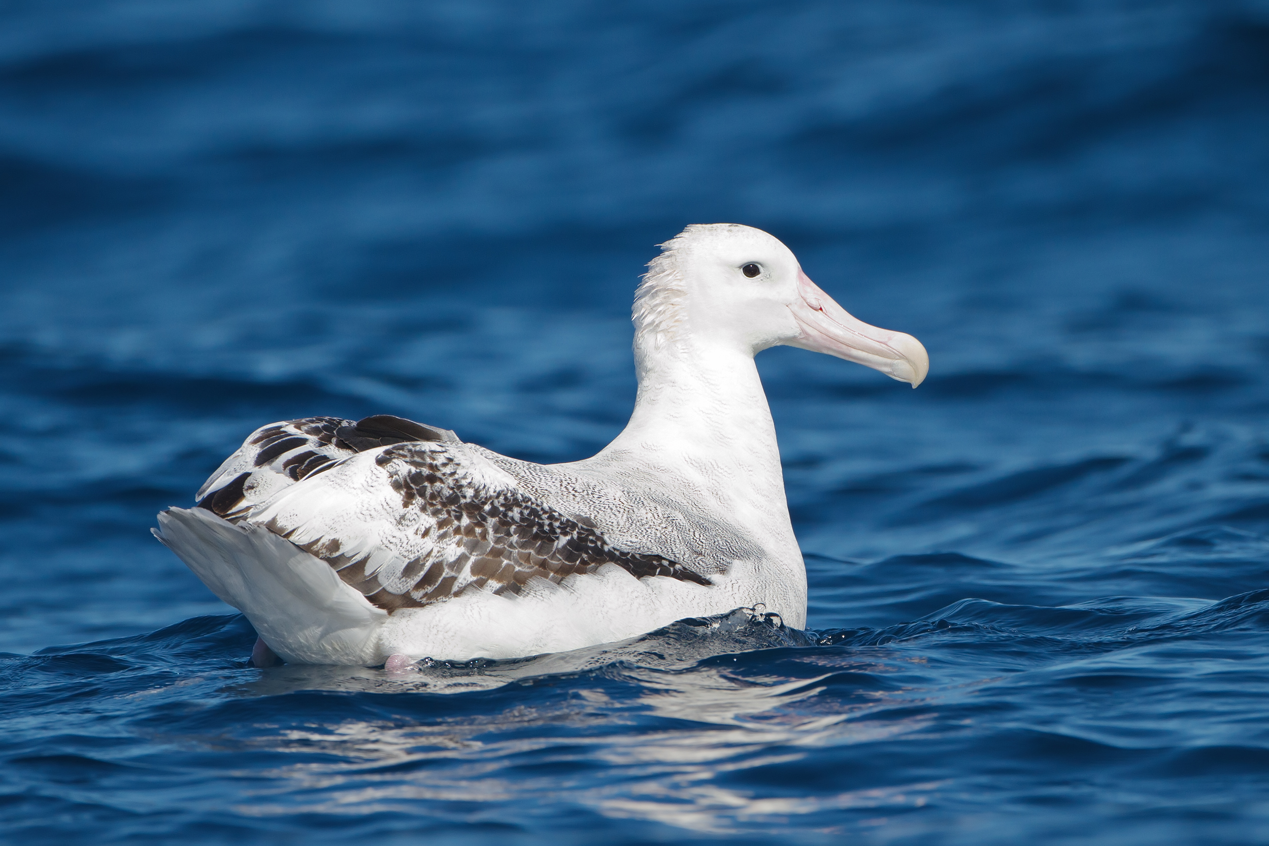 Wandering Albatross (Diomedea exulans), East of the Tasman Peninsula, Tasmania, Australia.